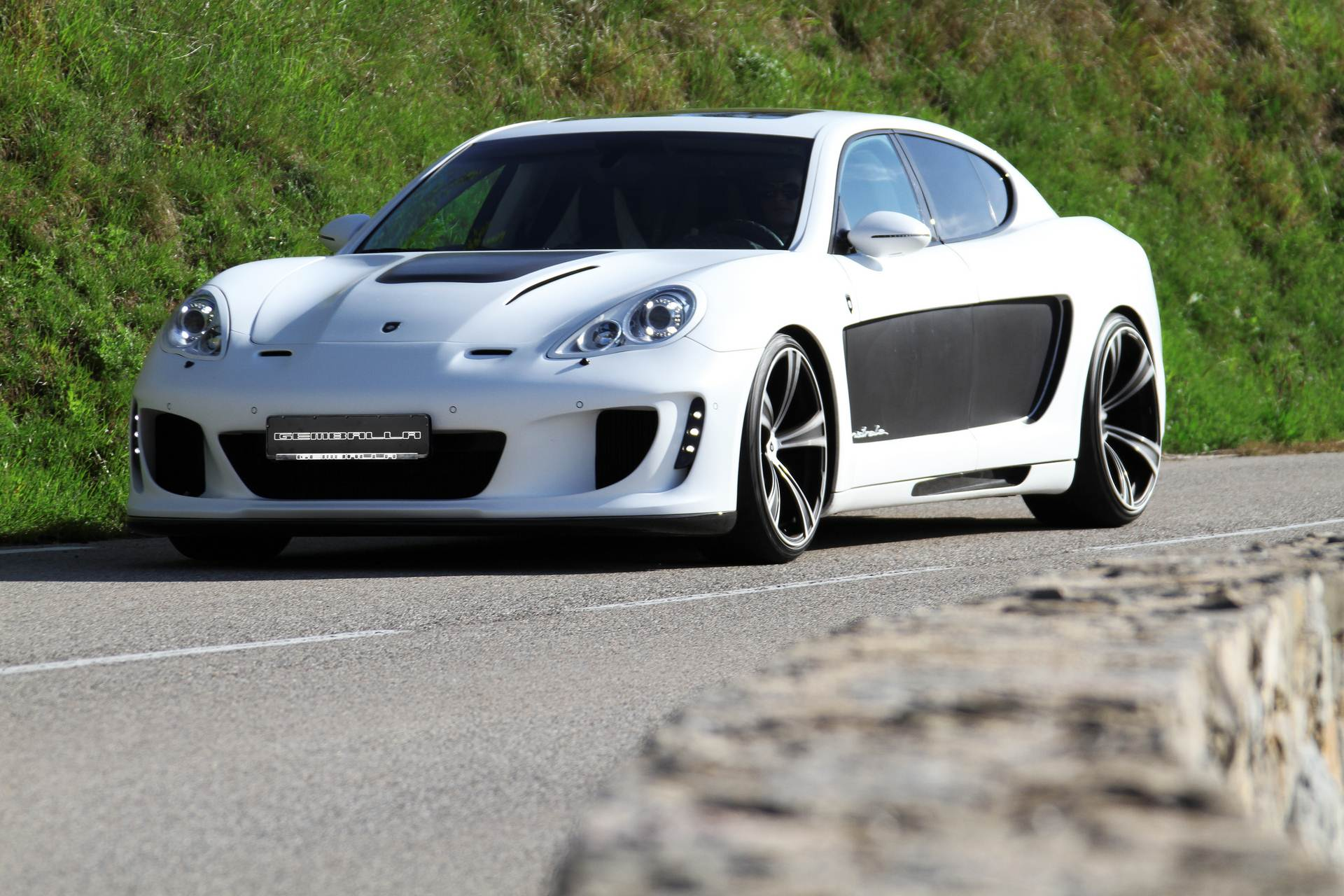 Picture was shot in Italy in 2012